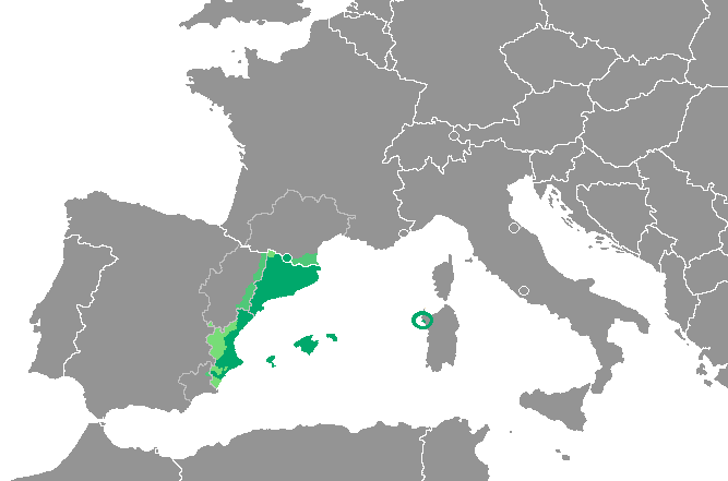 Extension of the Catalan language in Europe.